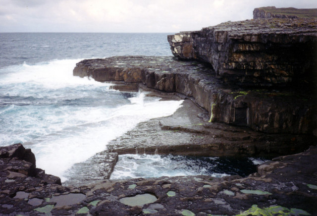 The Worm Hole A view of the Worm Hole, an odd square pit below the cliffs to the east of Dun Aengus. It is connected to the sea by a tunnel, so its waters sometimes seem to roil on their own, hence the legend of the 'worm'.